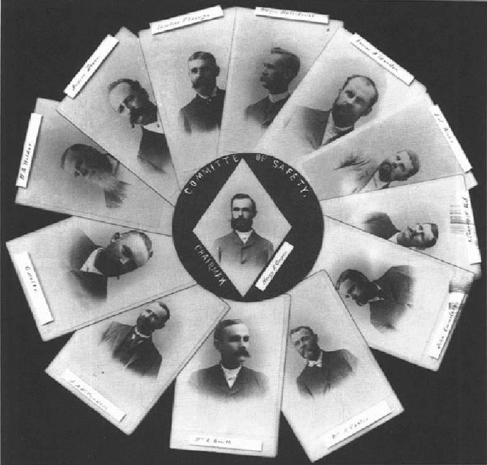 The Committee of Safety, formally the Citizen's Committee of Public Safety, was a 13-member group of the Hawaiian League also known as the Annexation Club. The group was composed of American, Hawaiian, and European citizens who were members of the Missionary Party, as well as American and European residents in the Kingdom of Hawaiʻi that planned and carried out the overthrow of the Kingdom of Hawaiʻi on January 17, 1893. The goal of this group was to achieve annexation of Hawaiʻi to the United States. The new independent Republic of Hawaiʻi government was thwarted in this goal by the administration of President Grover Cleveland, and it was not until 1898 that the United States Congress approved a joint resolution of annexation creating the U.S. Territory of Hawaiʻi.